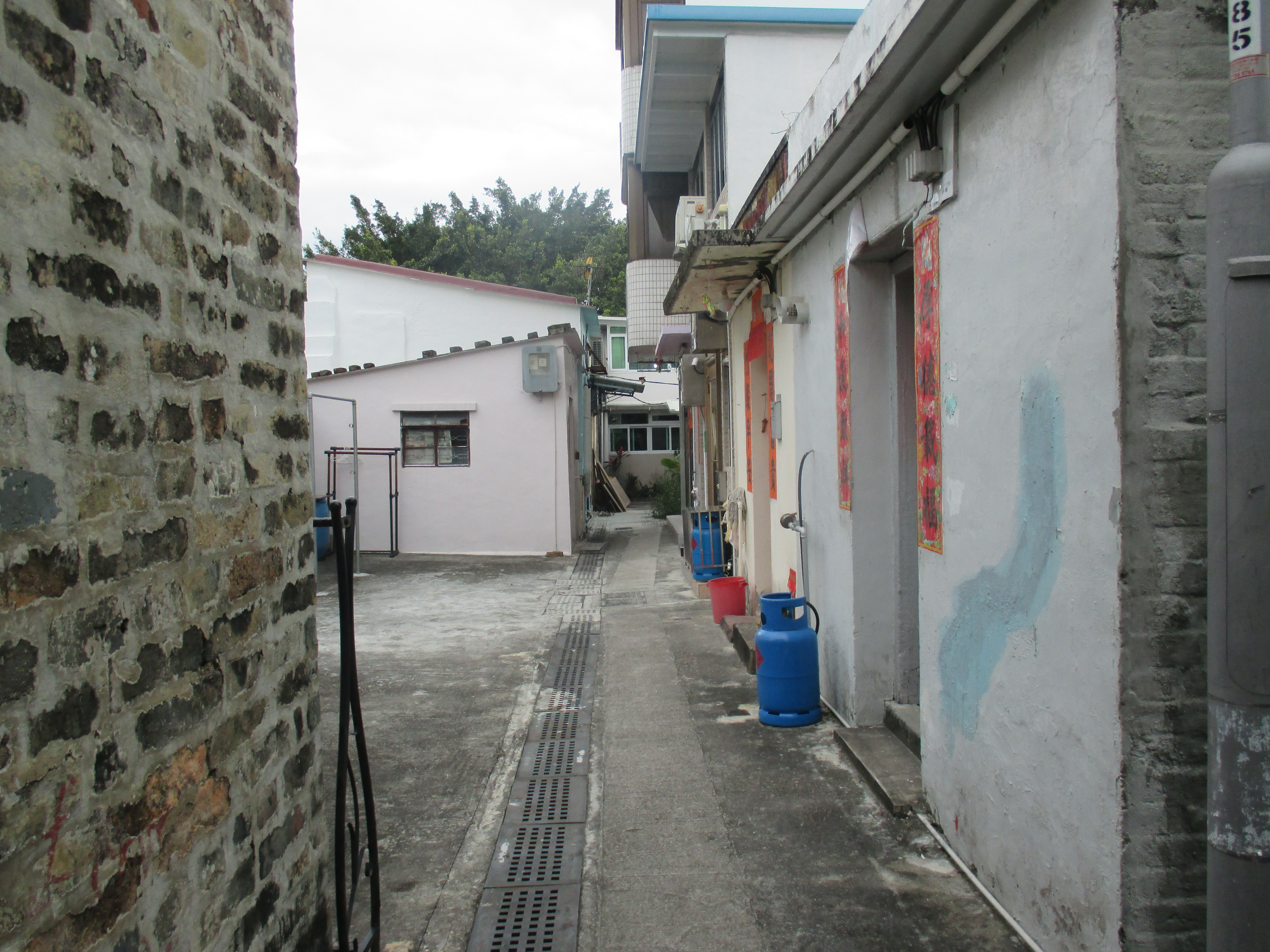 Tung Kok Wai aka. Ling Kok Wai is a walled village in Fanling, North District, Hong Kong, part of the Lung Yeuk Tau Heritage Trail. View of the interior of the village near the entrance tower.